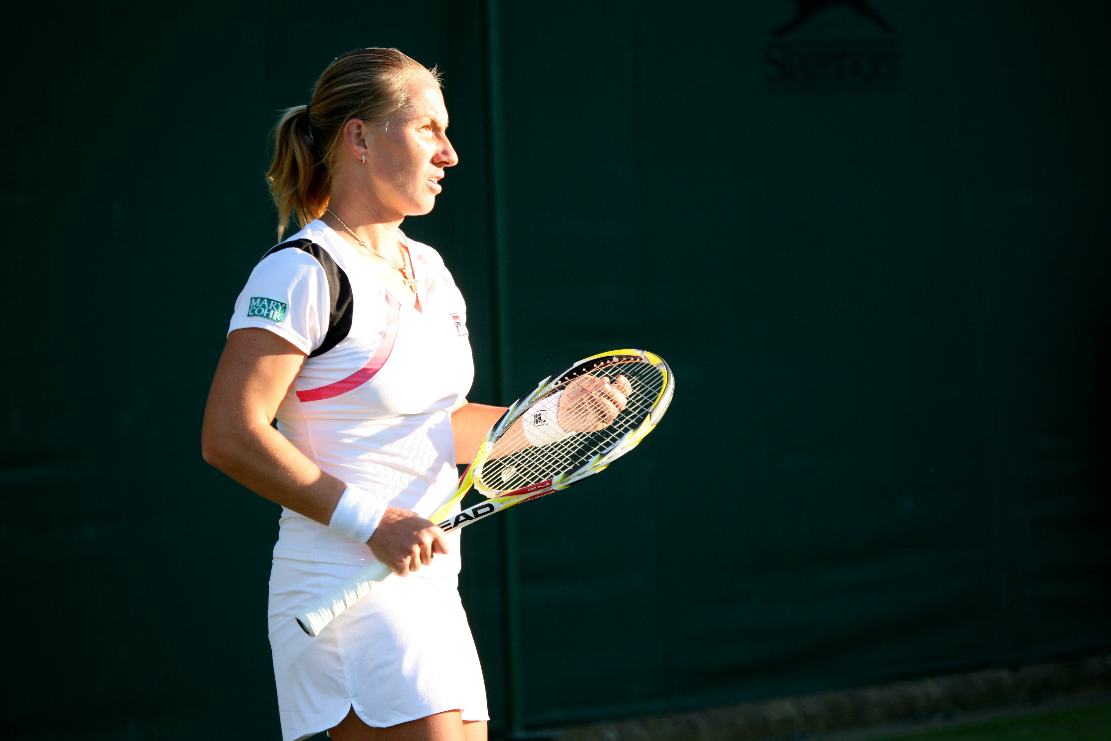 Svetlana Kuznetsova against Akiko Morigami in the 2009 Wimbledon Championships first round